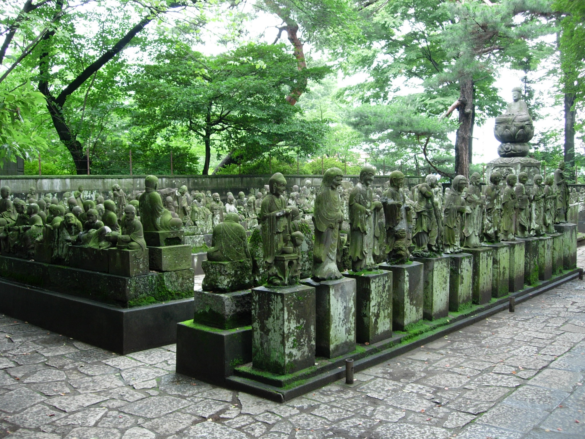 500 statues of Rakan at Kita-in temple, Kawagoe.